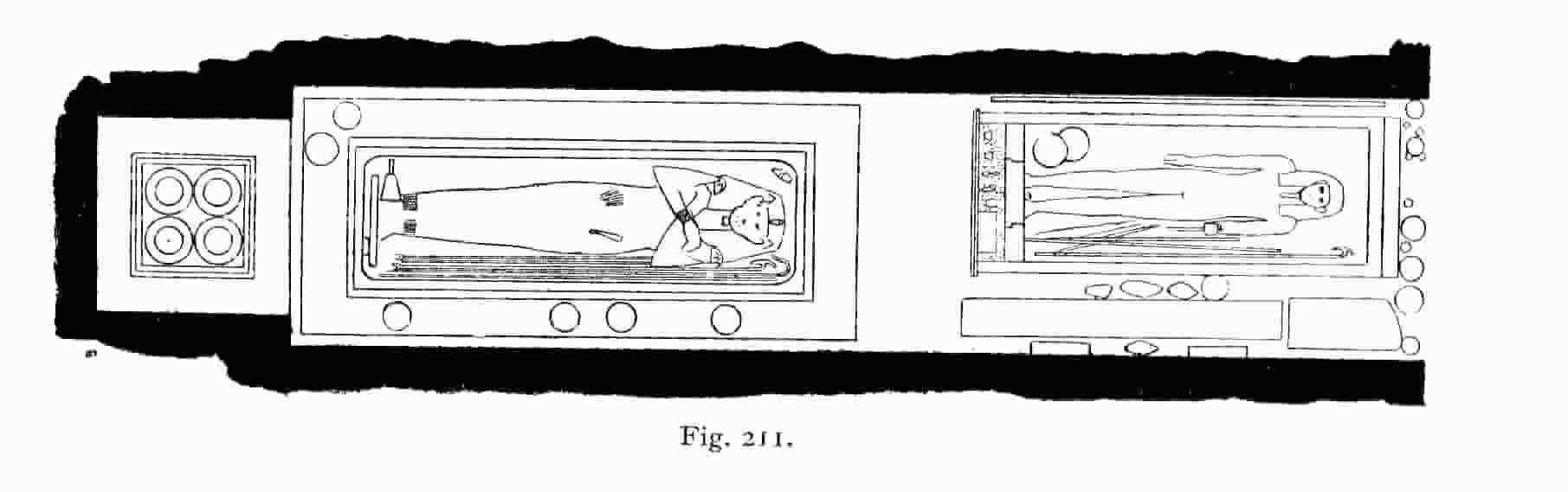 Plan of the tomb of the Egyptian king Hor, 13th Dynasty (about 1750BC)